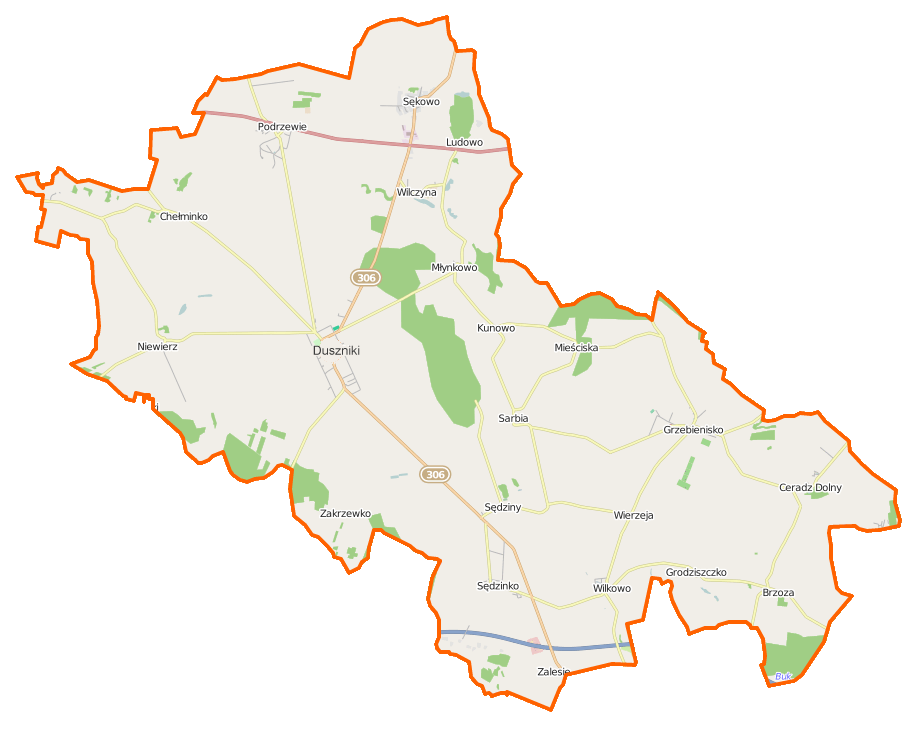 Map of Gmina Duszniki, Poland This map of Duszniki (gmina) was created from OpenStreetMap project data, collected by the community. This map may be incomplete, and may contain errors. Don't rely solely on it for navigation.